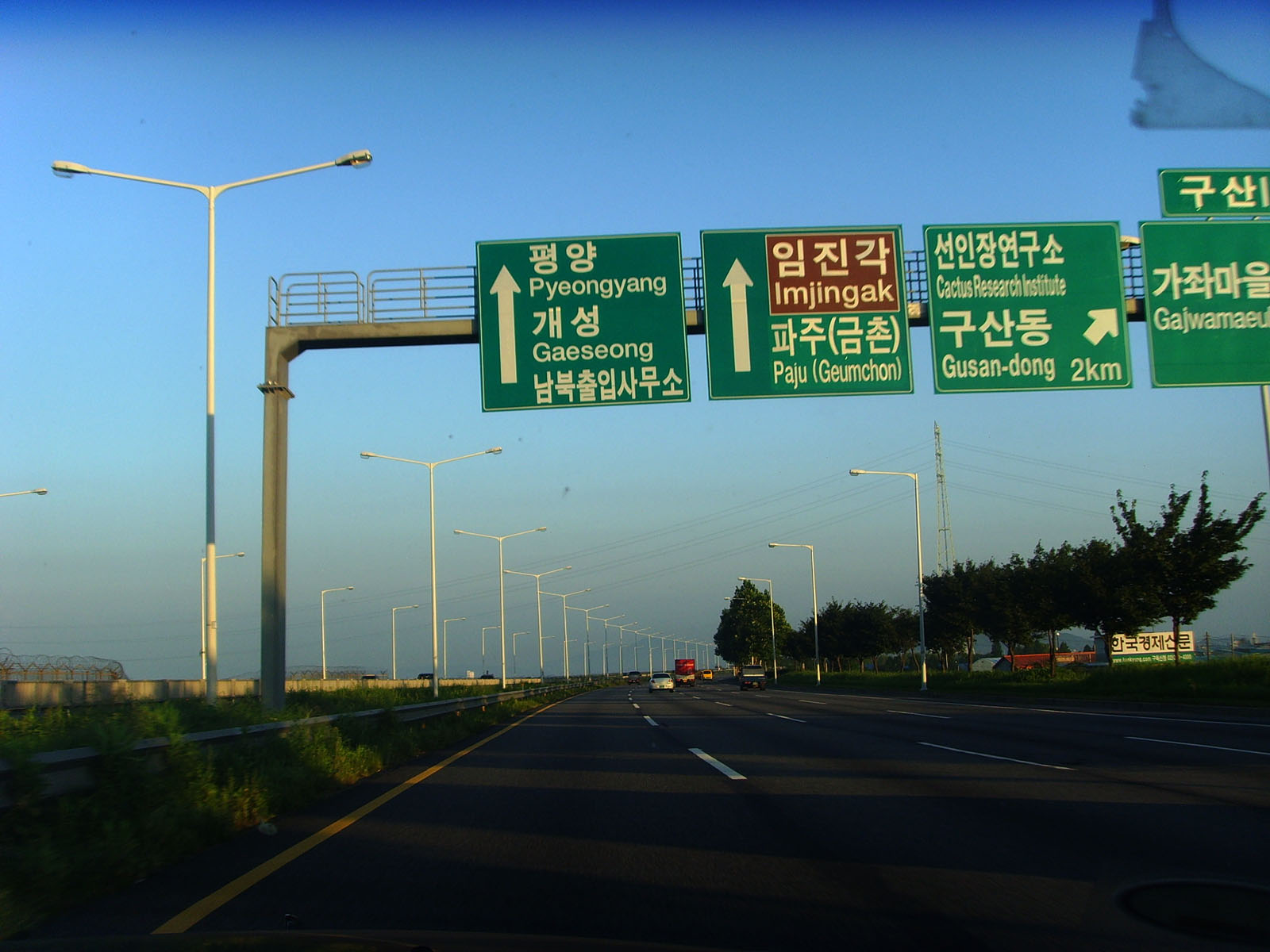 Jayuro Gusan IC Panel